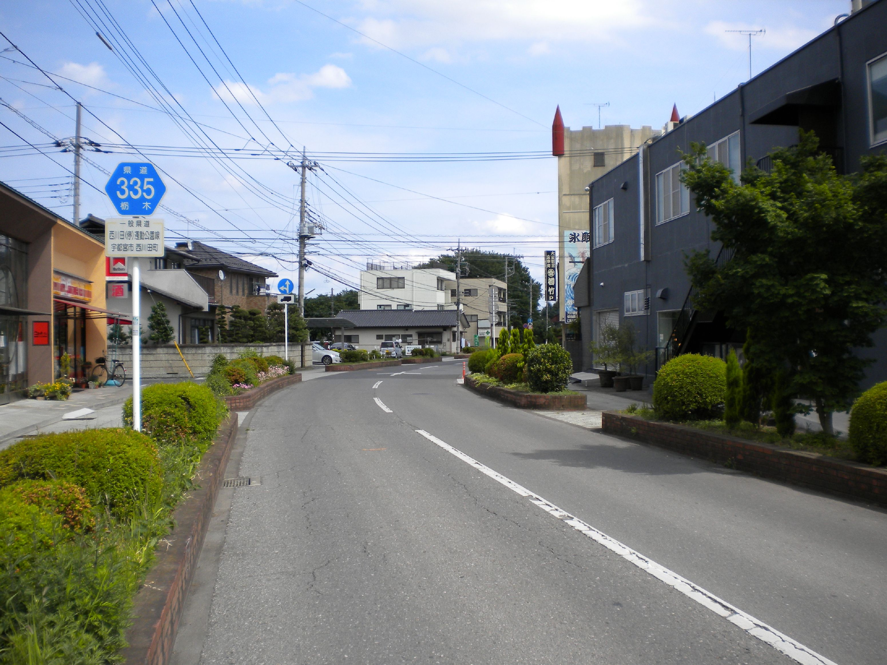 Tochigi prefectural road No.335 on Utsunomiya city